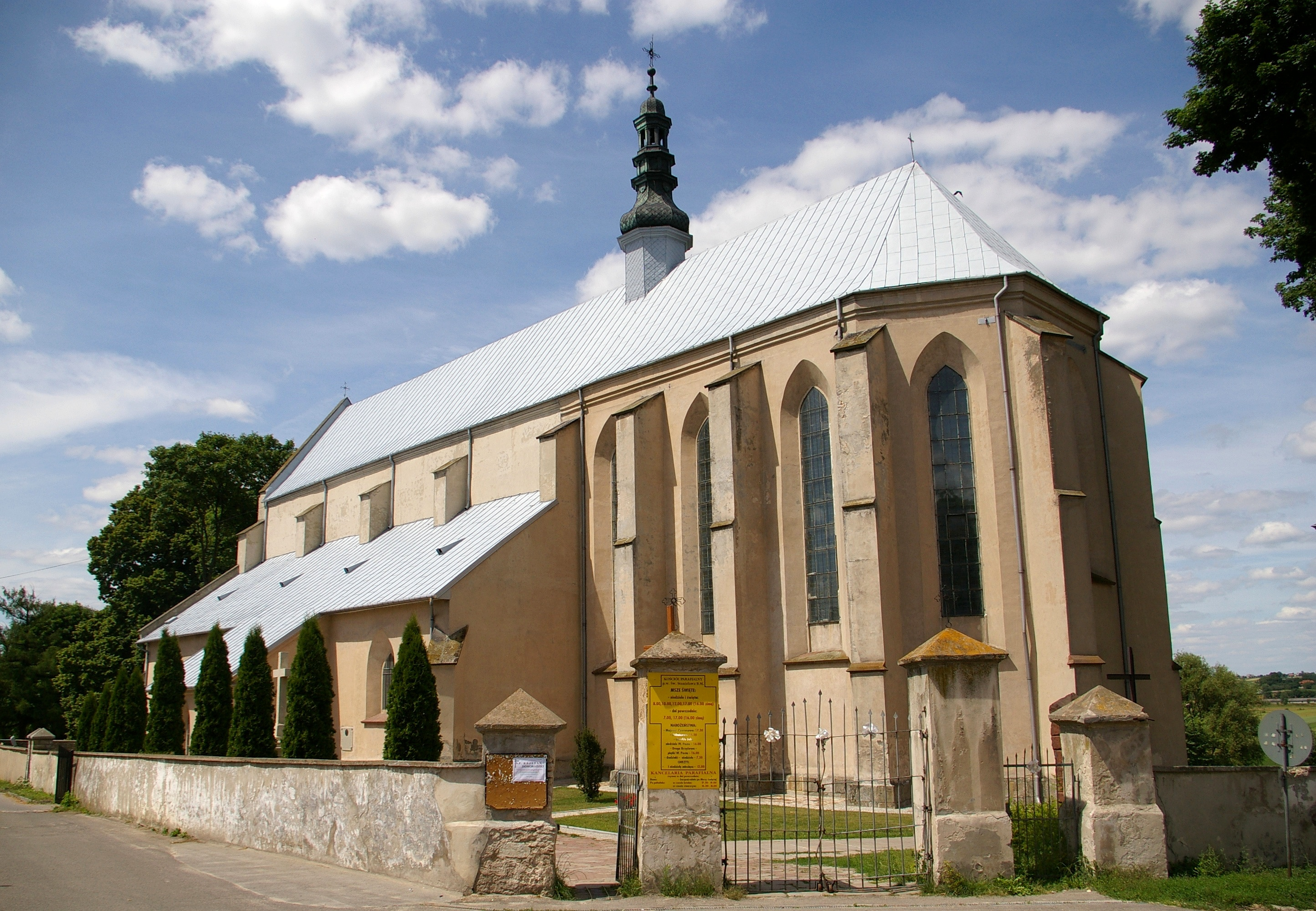 Parish church in Bodzentyn, Poland